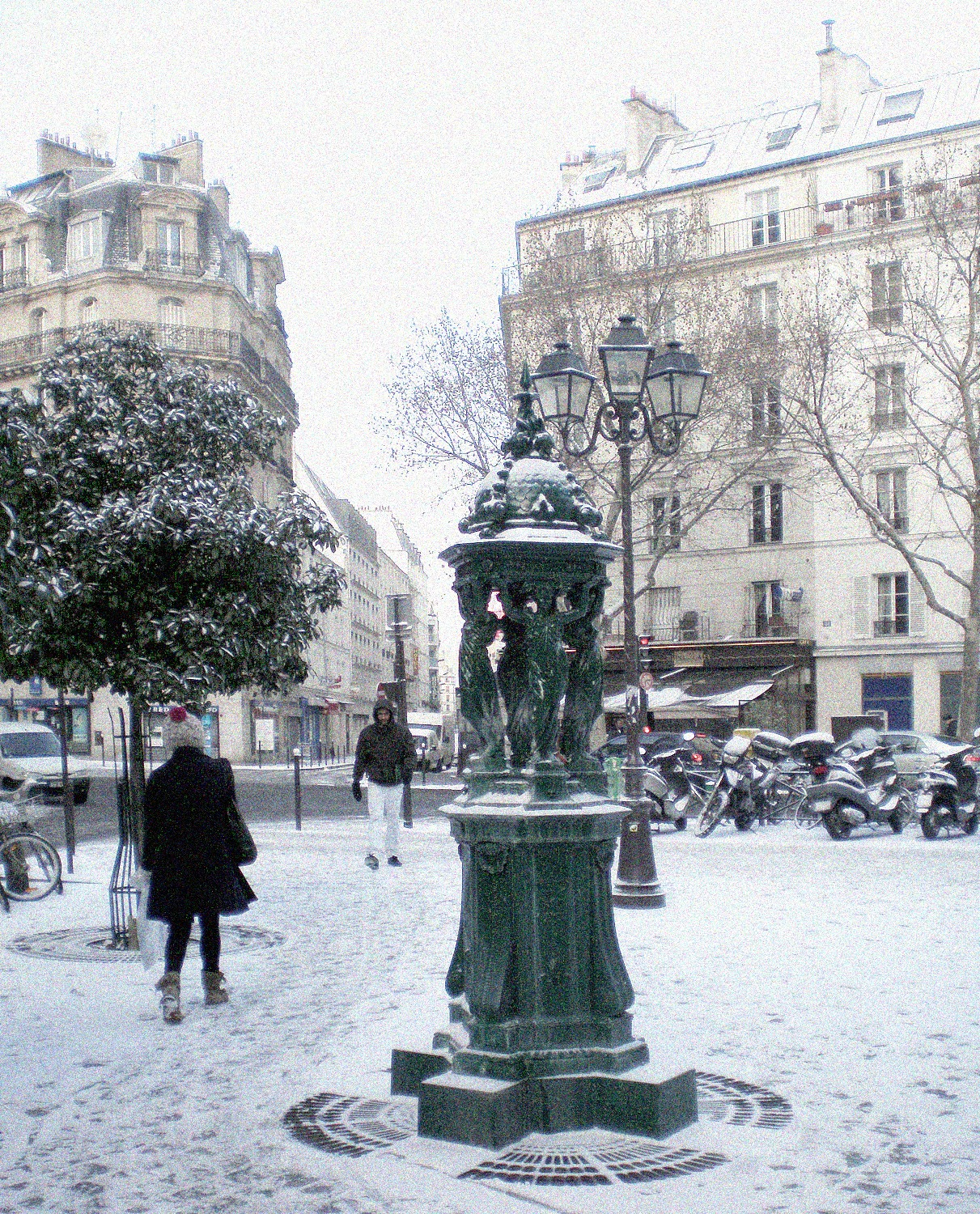 Wallace Fountain - Paris